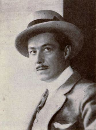 American actor Henry B. Walthall, on page 22 of the September 15, 1917 Exhibitors Herald.